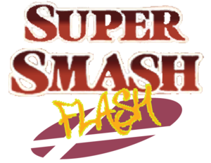 Logo for the Super Smash Bros.-based fangame, Super Smash Flash.